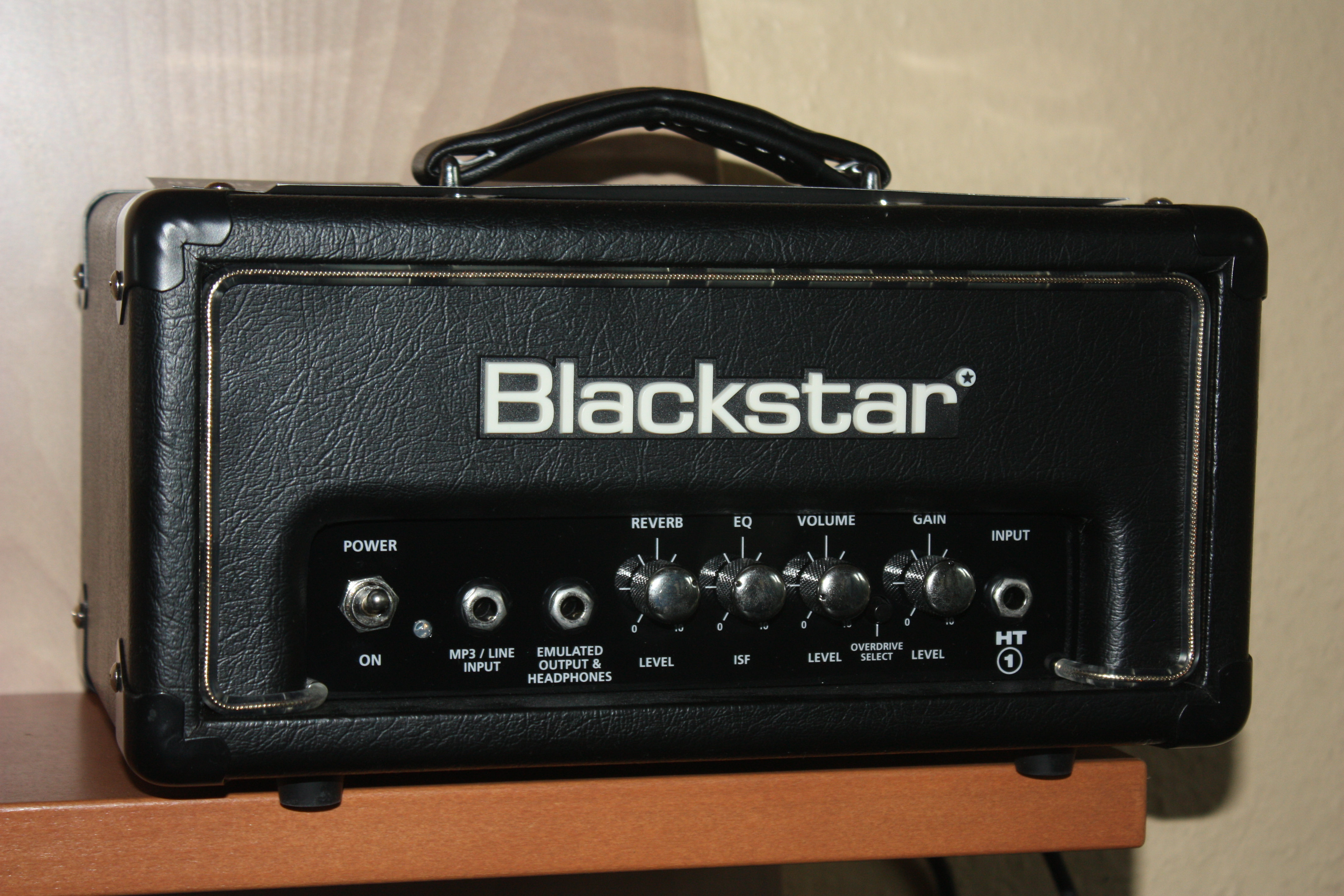 Blackstar H1-RH Head